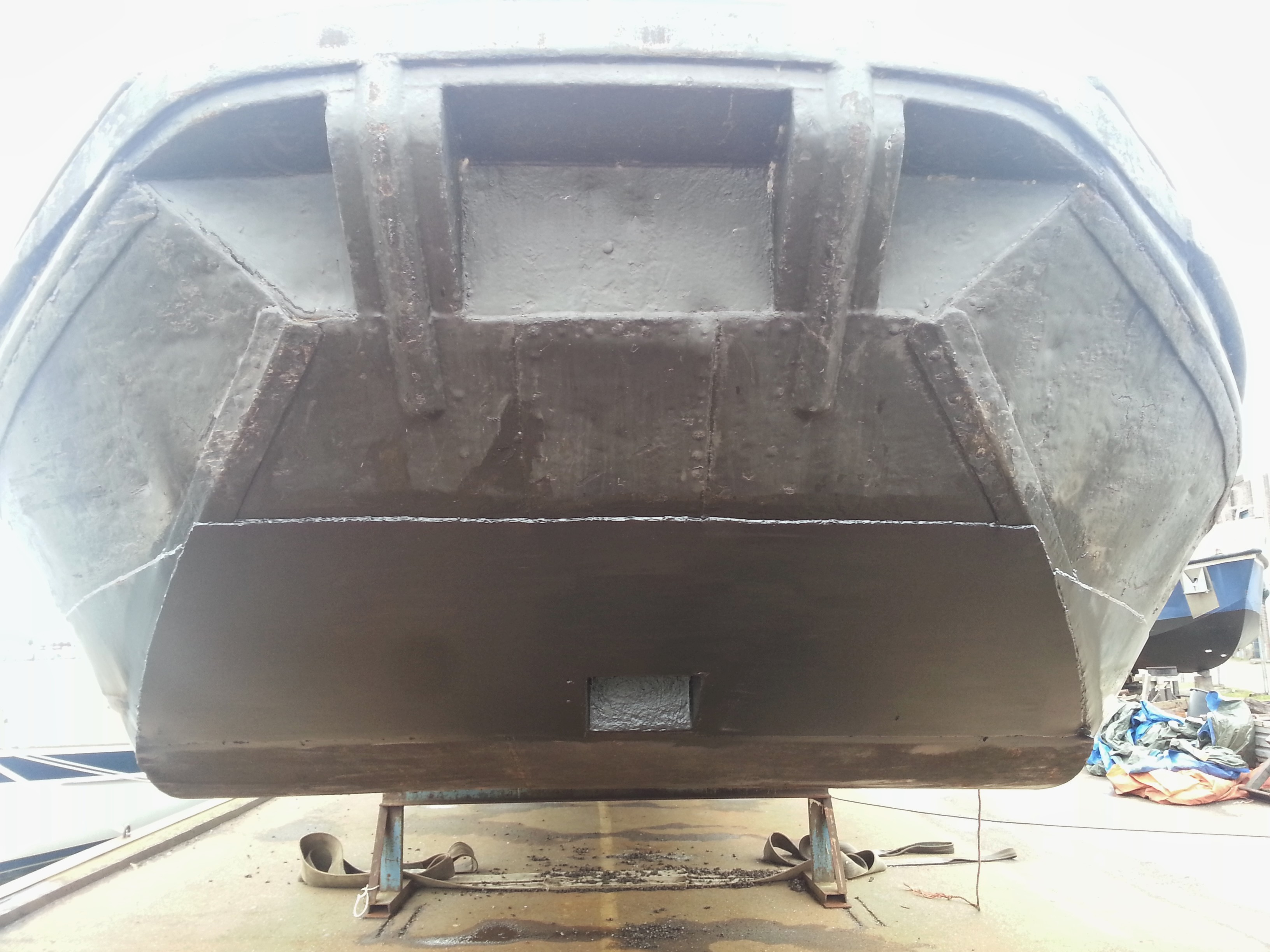 A barge was plated with 5mm steel sheets.